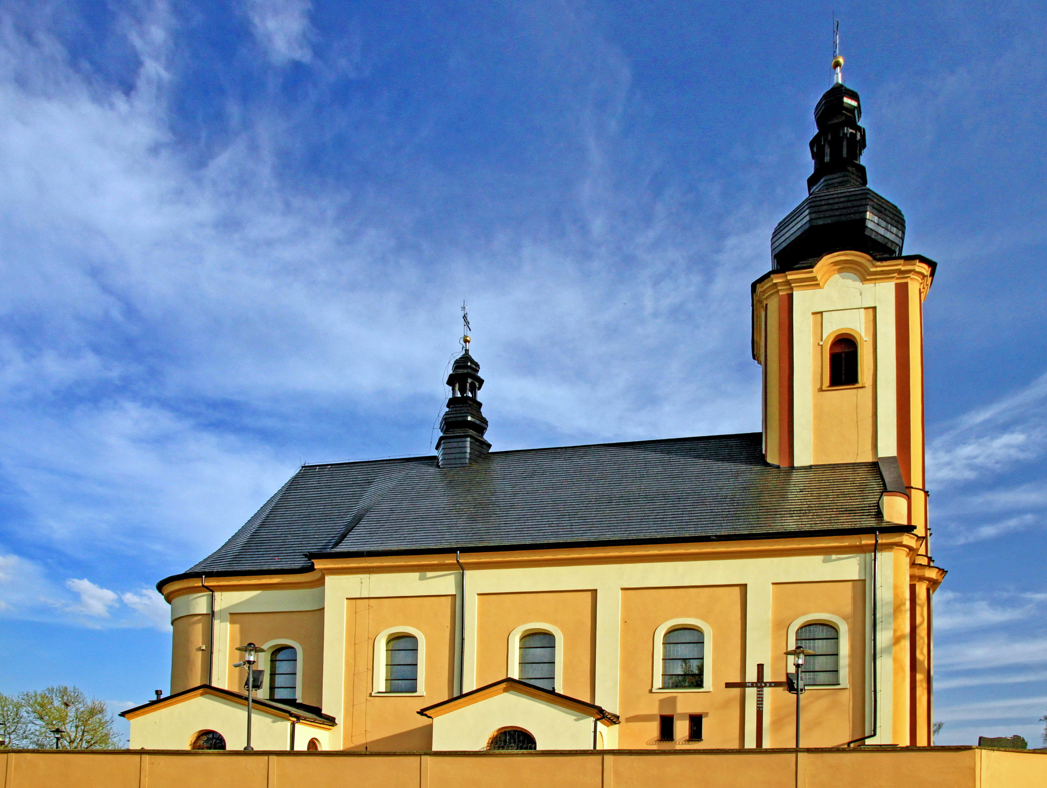 Jastrzębie-Zdrój, All Saints church, build in 1796-1801